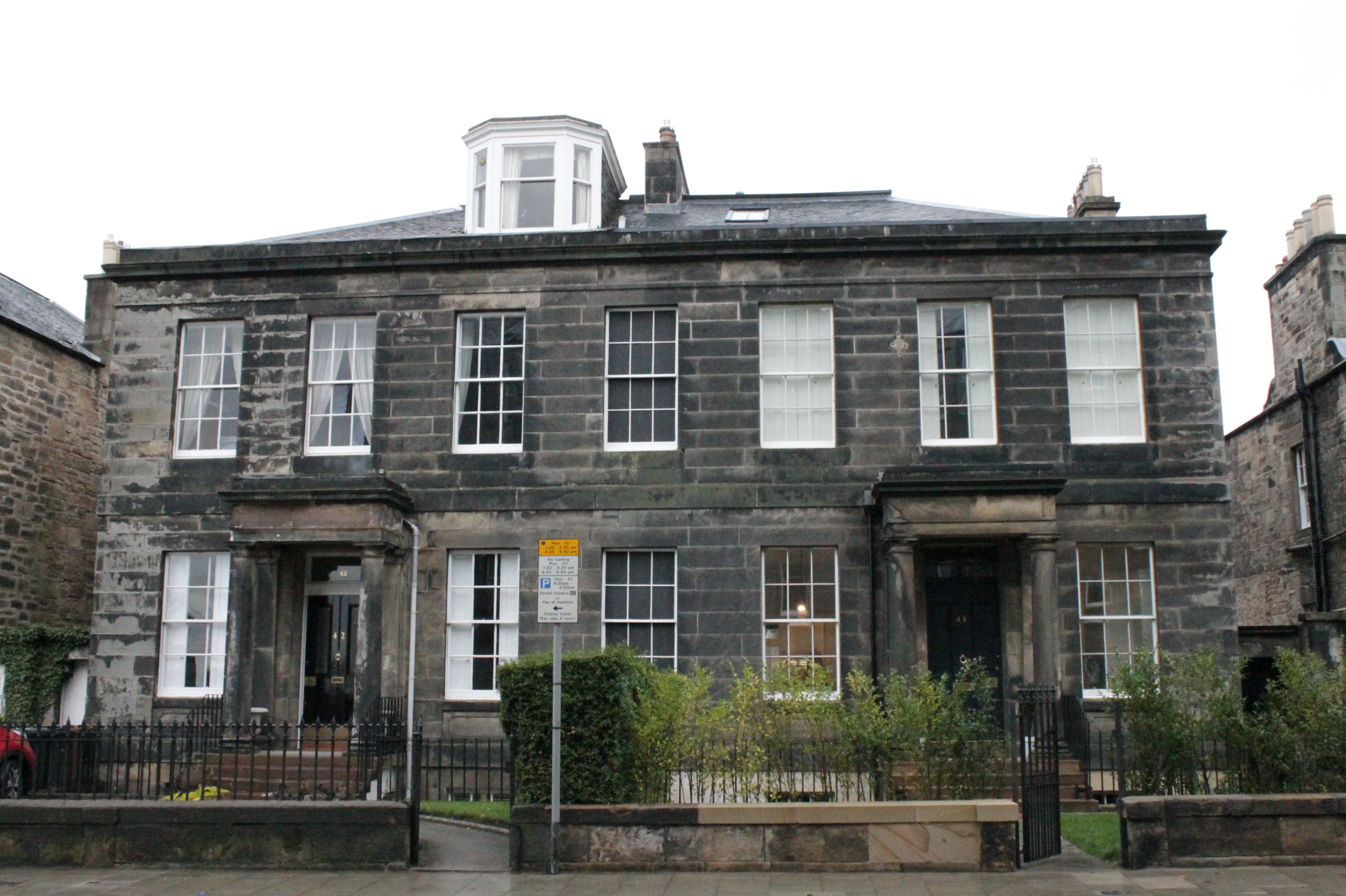 42 and 43 Inverleith Row